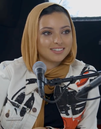 Noor Tagouri on Ashley Graham's podcast, October 2018